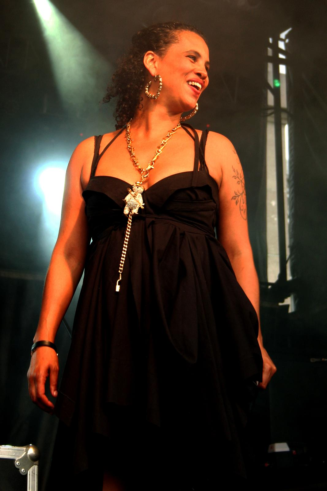 Photograph of Swedish musician Neneh Cherry.